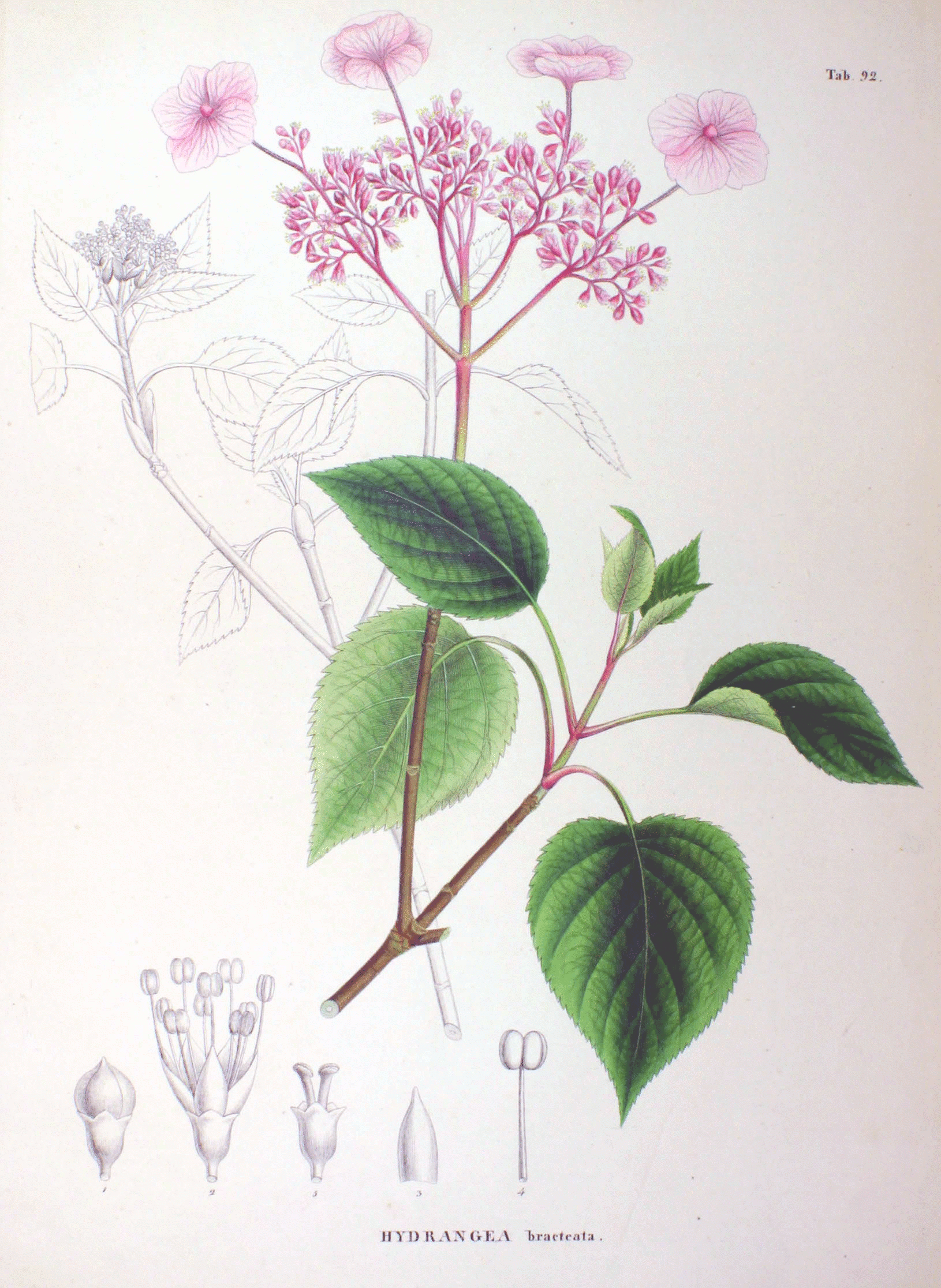 Hydrangea petiolaris Plate from book [original upload description was identified as Hydrangea scandens]